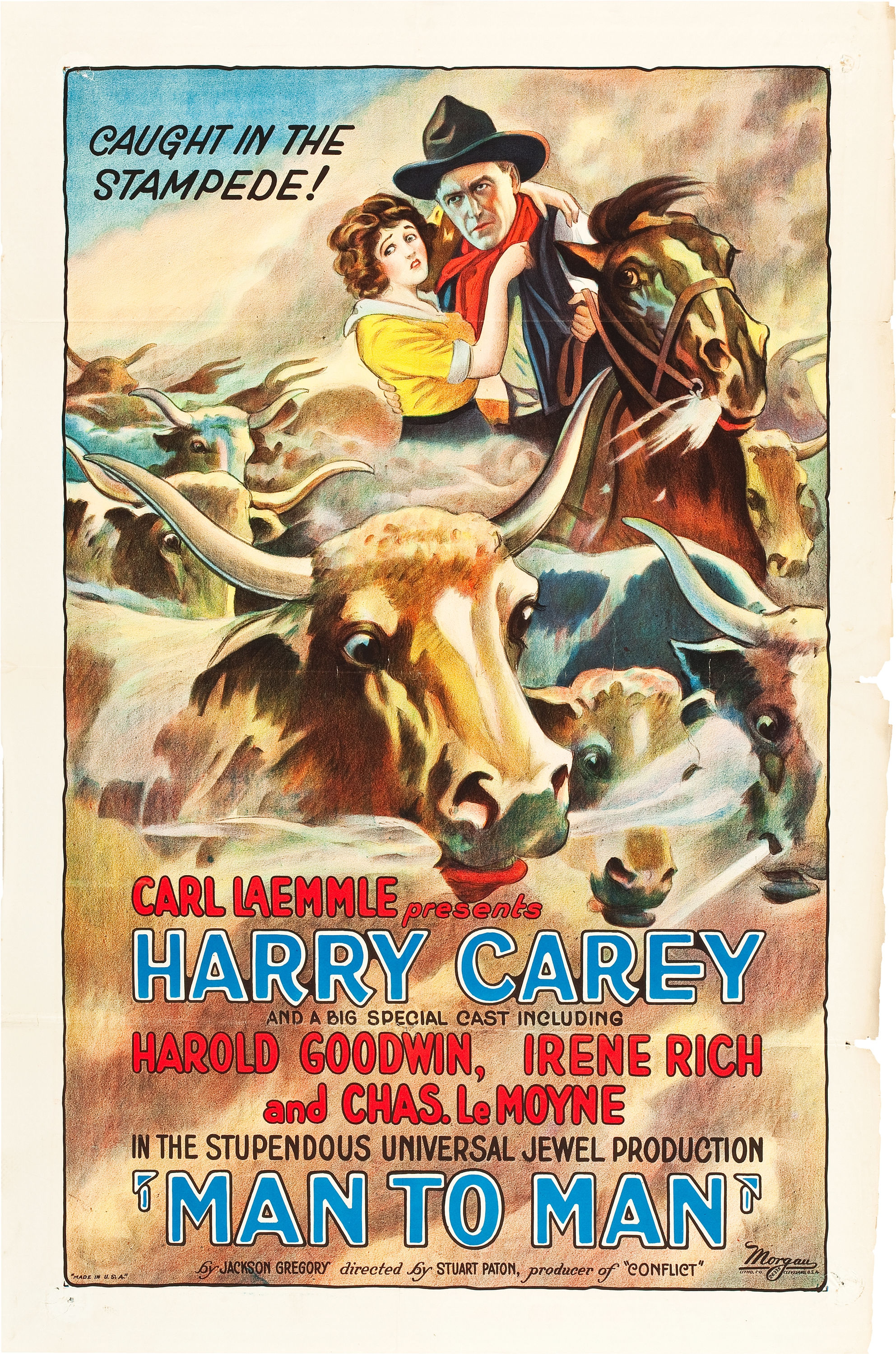 Movie poster for the American film Man to Man (1922) with Harry Carey.